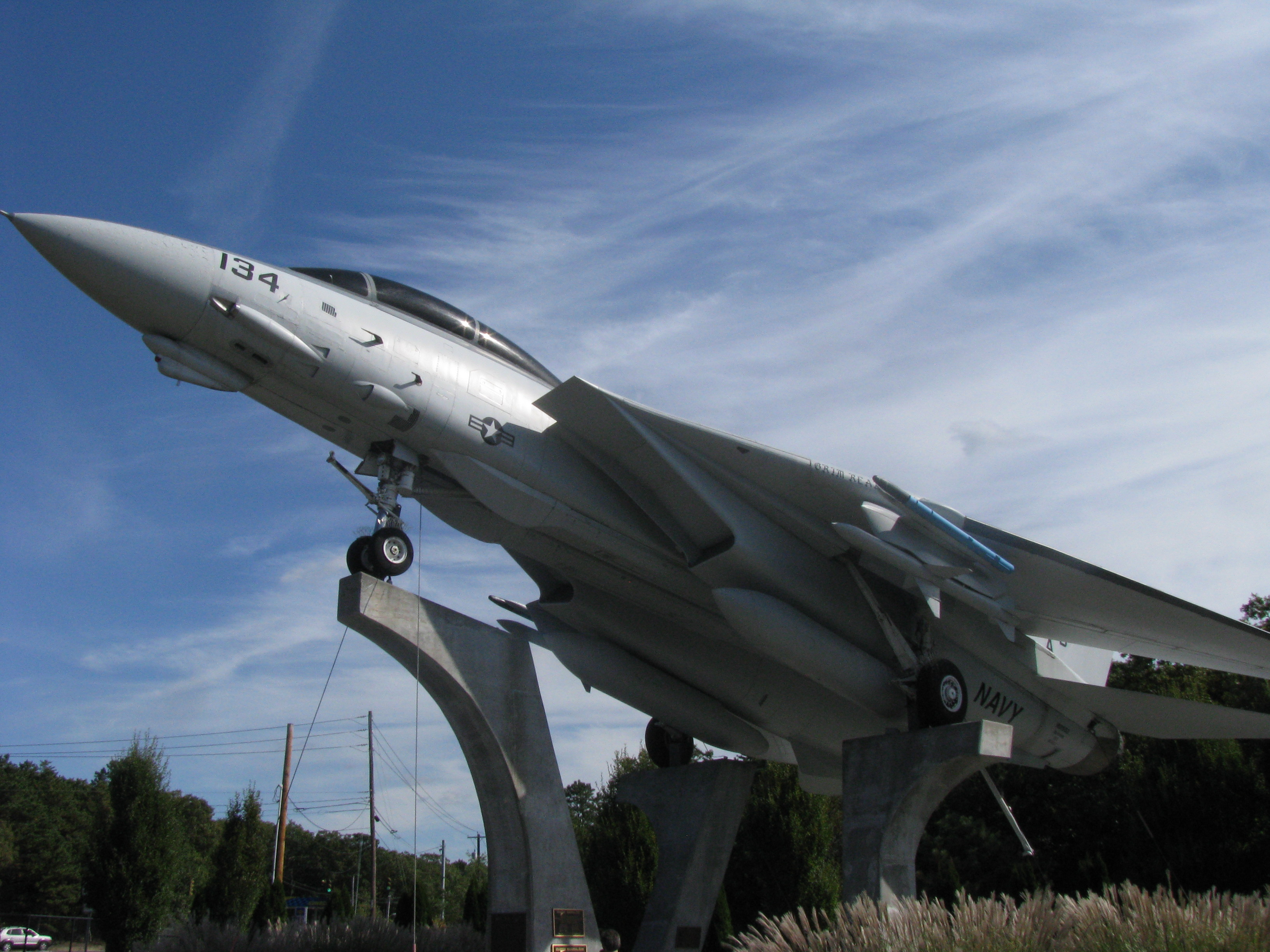 An F-14A Tomcat on display at Grumman Memorial Park in New York.